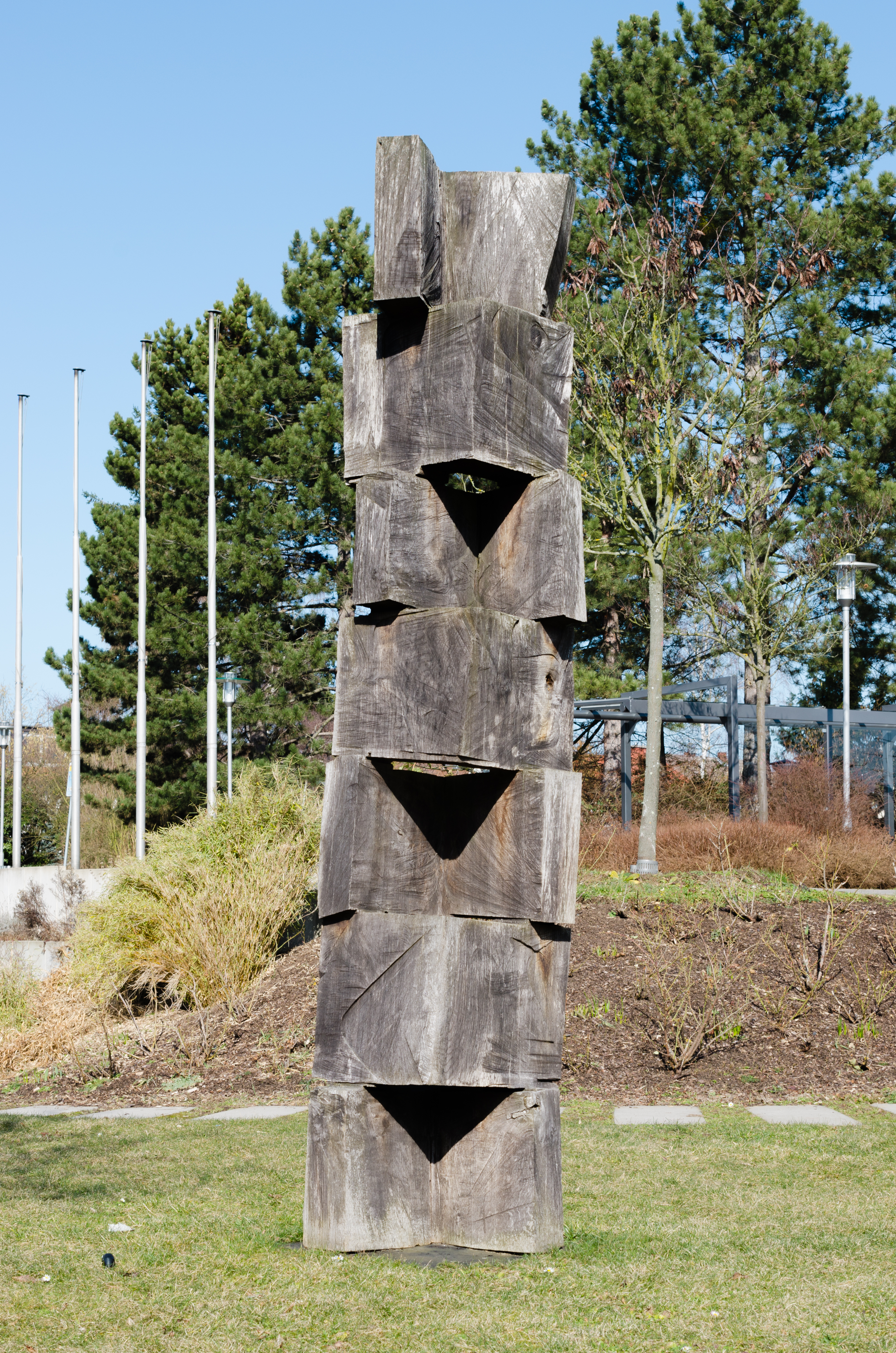 Sculpture Eck-Räume by Ortrud Sturm, Mörfelden-Walldorf, Hesse, Germany.